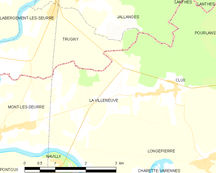 Map of French municipality